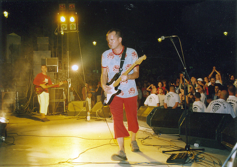 Neno Belan's performance on Nisomnia